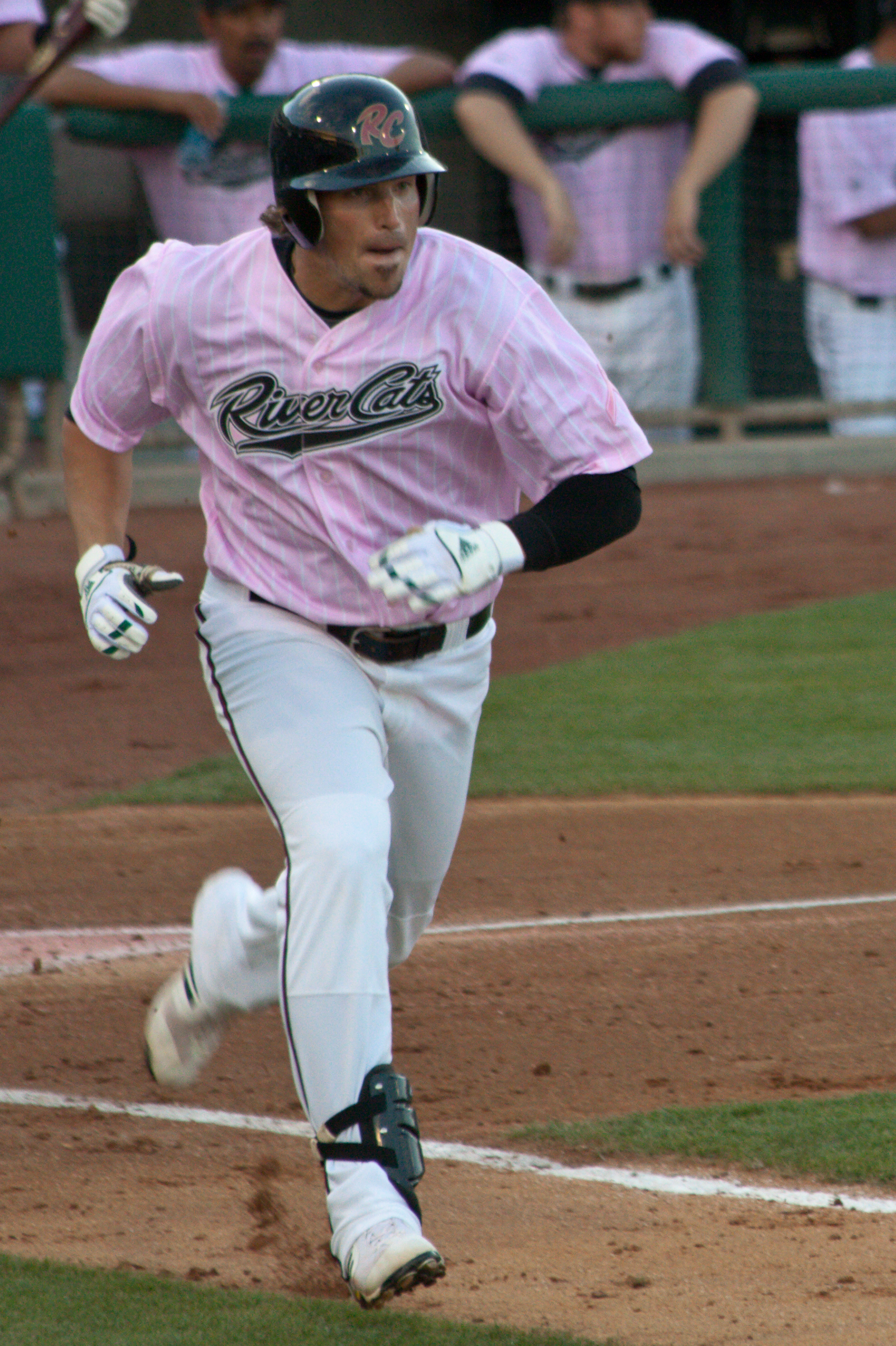 Travis Buck of the Sacramento Rivercats at Raley Field.